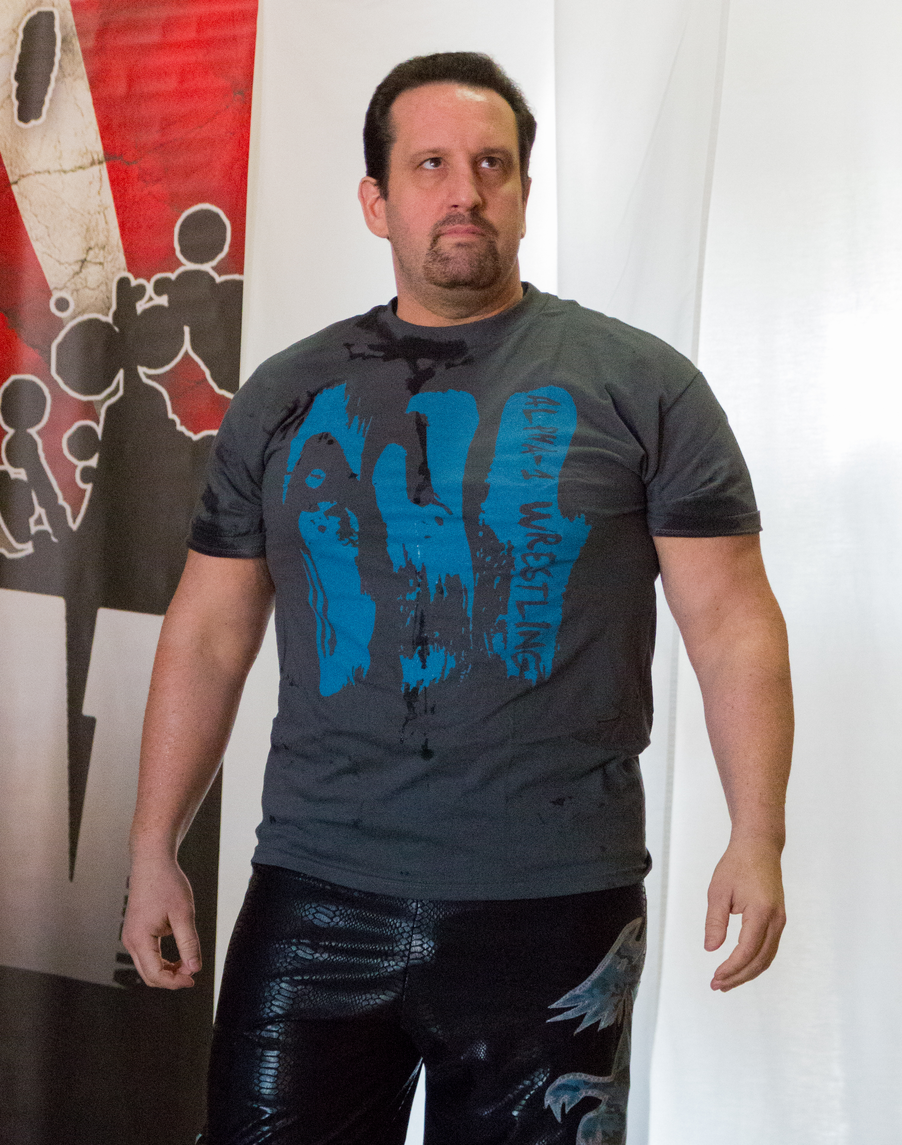 Pro wrestler Tommy Dreamer making his entrance at an Alpha-1 show in Hamilton, ON